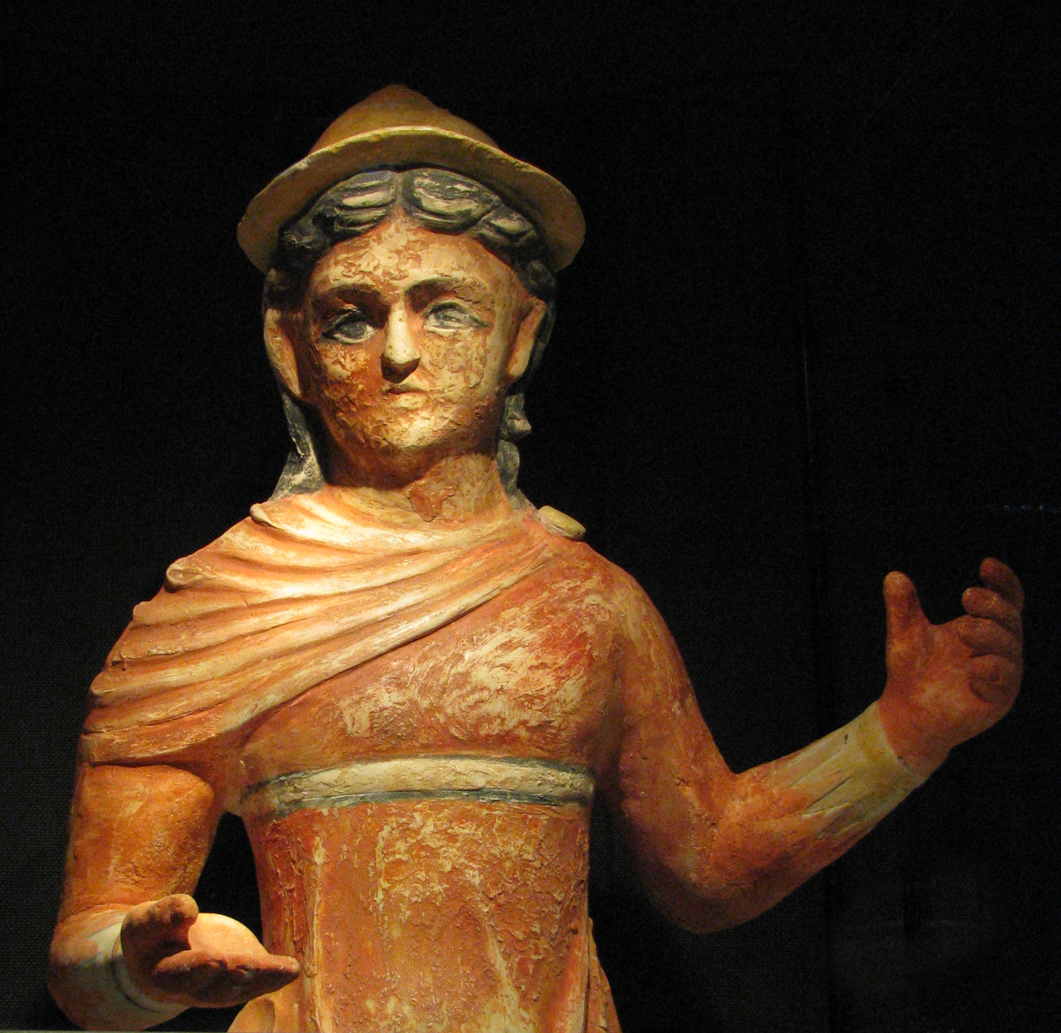 Khalchayan statuette, 1st century BCE (detail)